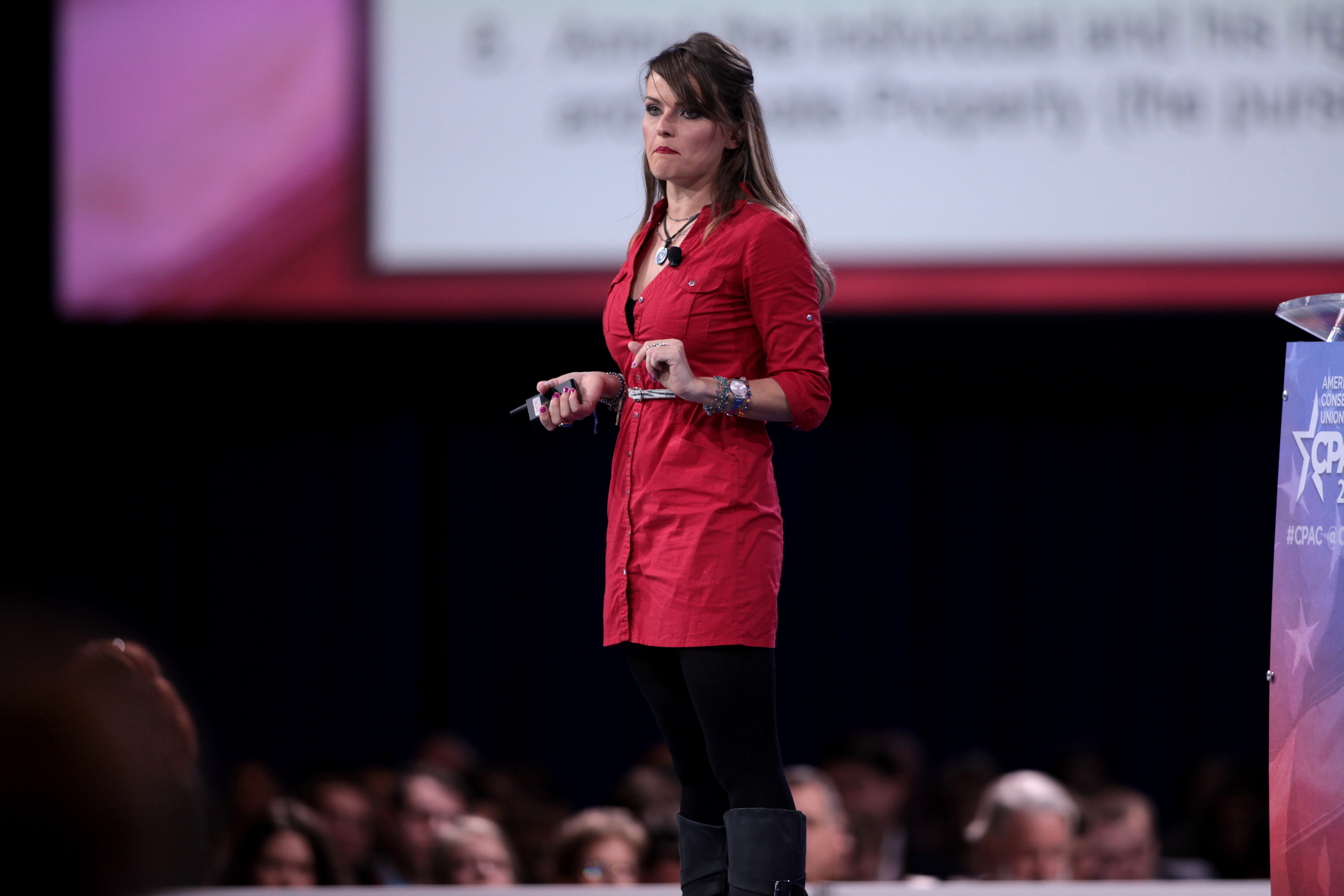 Gloria Alvarez speaking at the 2016 Conservative Political Action Conference (CPAC) in National Harbor, Maryland.